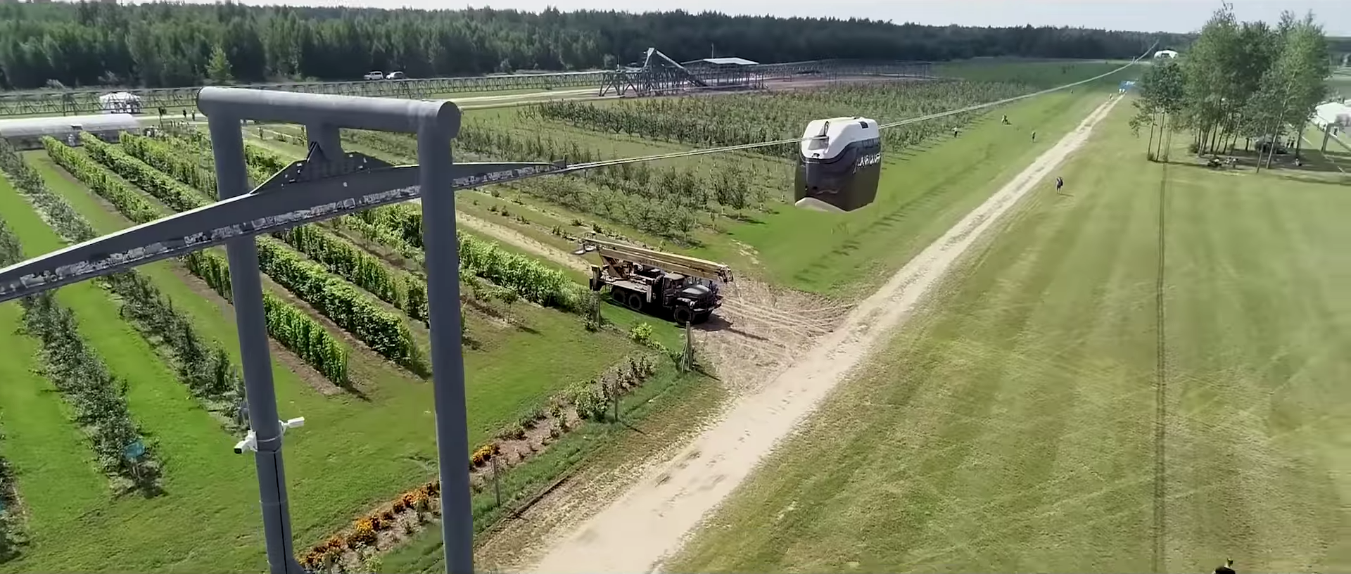 Foreground - Flexible string rail and suspended monorail car Unicar U4-430 Background on left - Cargo string rail